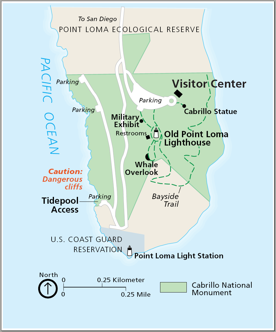 Map of Cabrillo National Monument